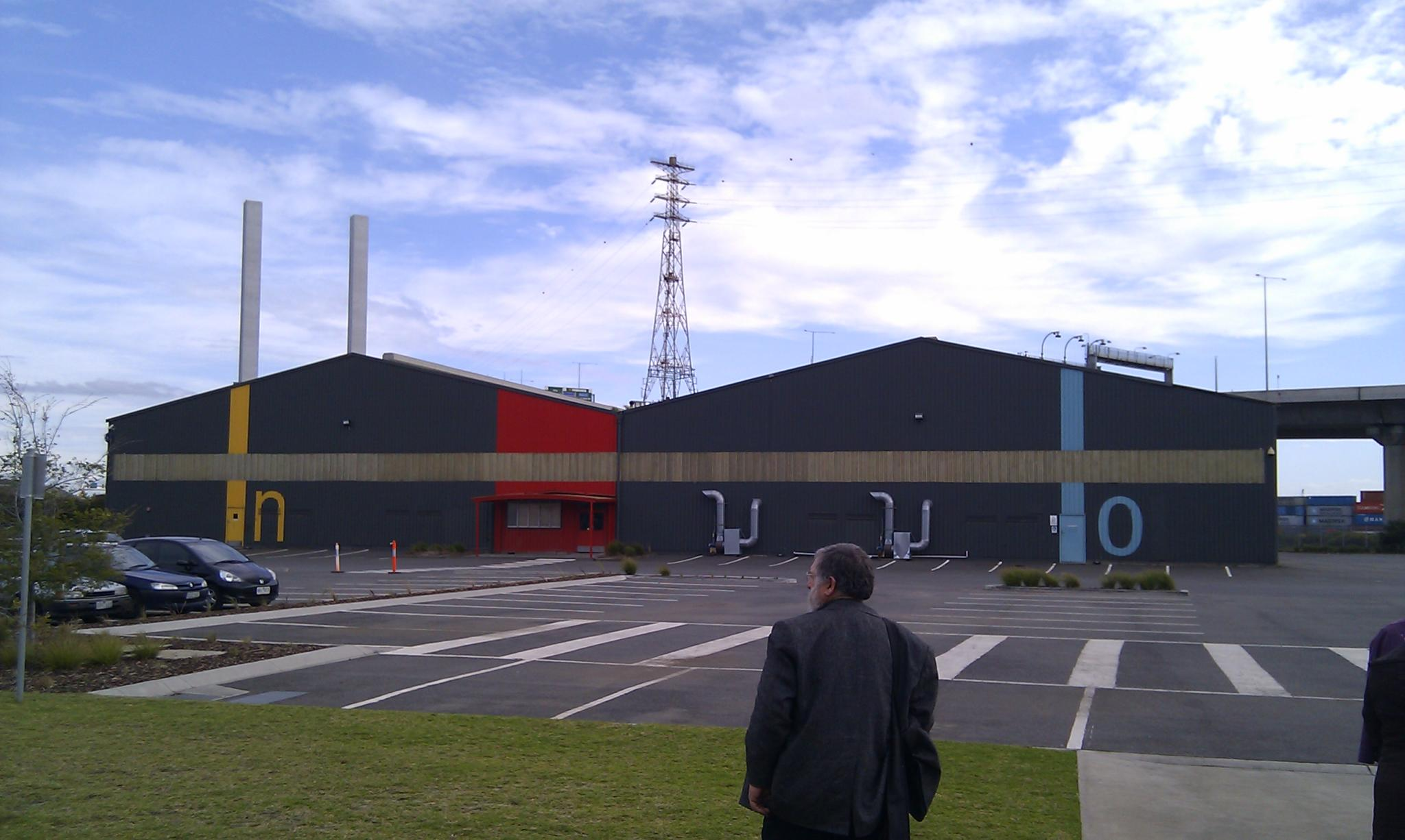 Dockland Studios, Melbourne